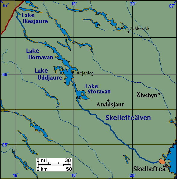 Closer map of the river Skellefteälven in Sweden (the upper left corner is Norway), showing lakes: Hornavan, Uddjaure, Storavan, and Ikesjaure.